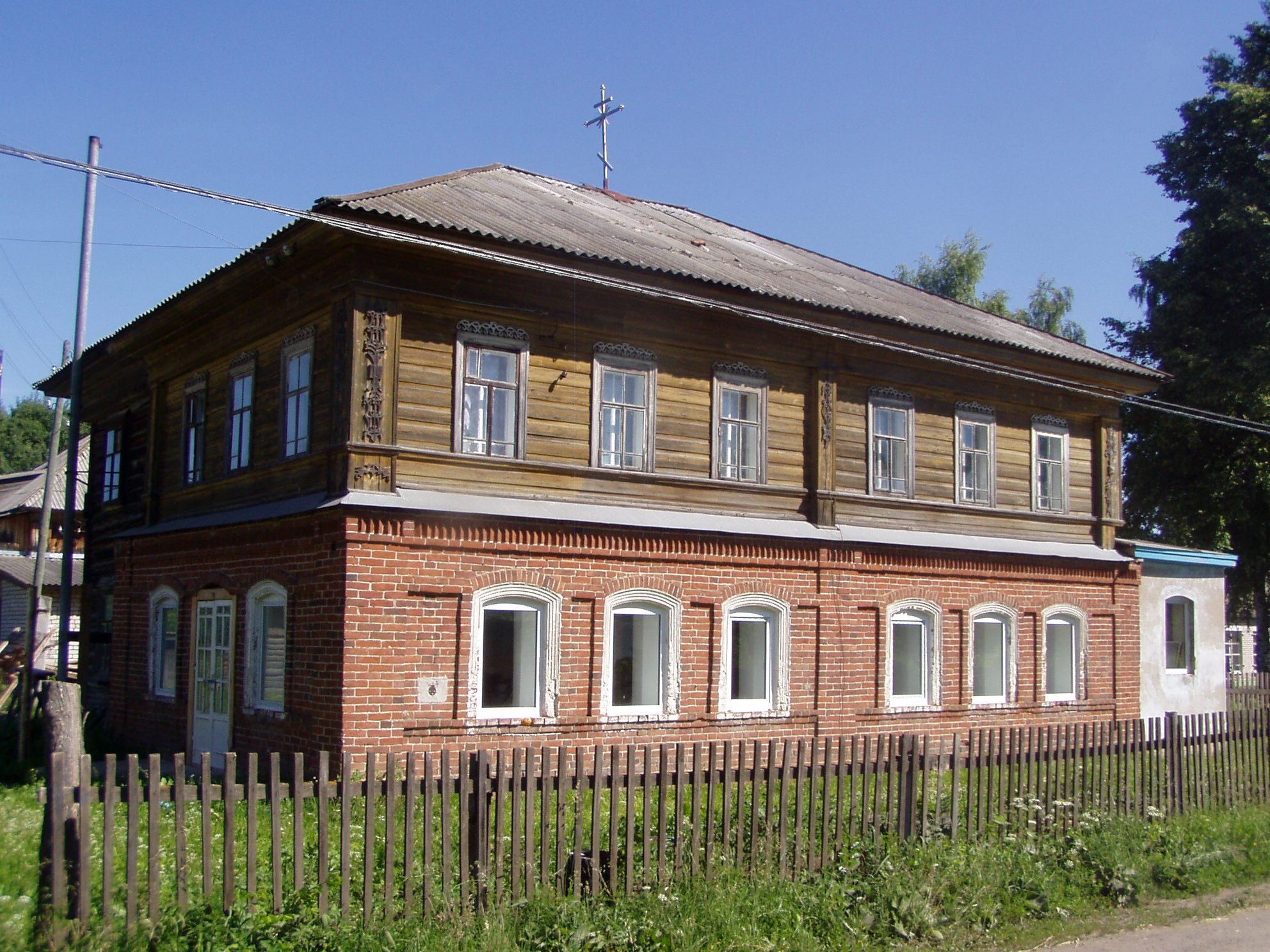 School in Pavlovo, Pizhanka rayon, Kirov oblast, Russia